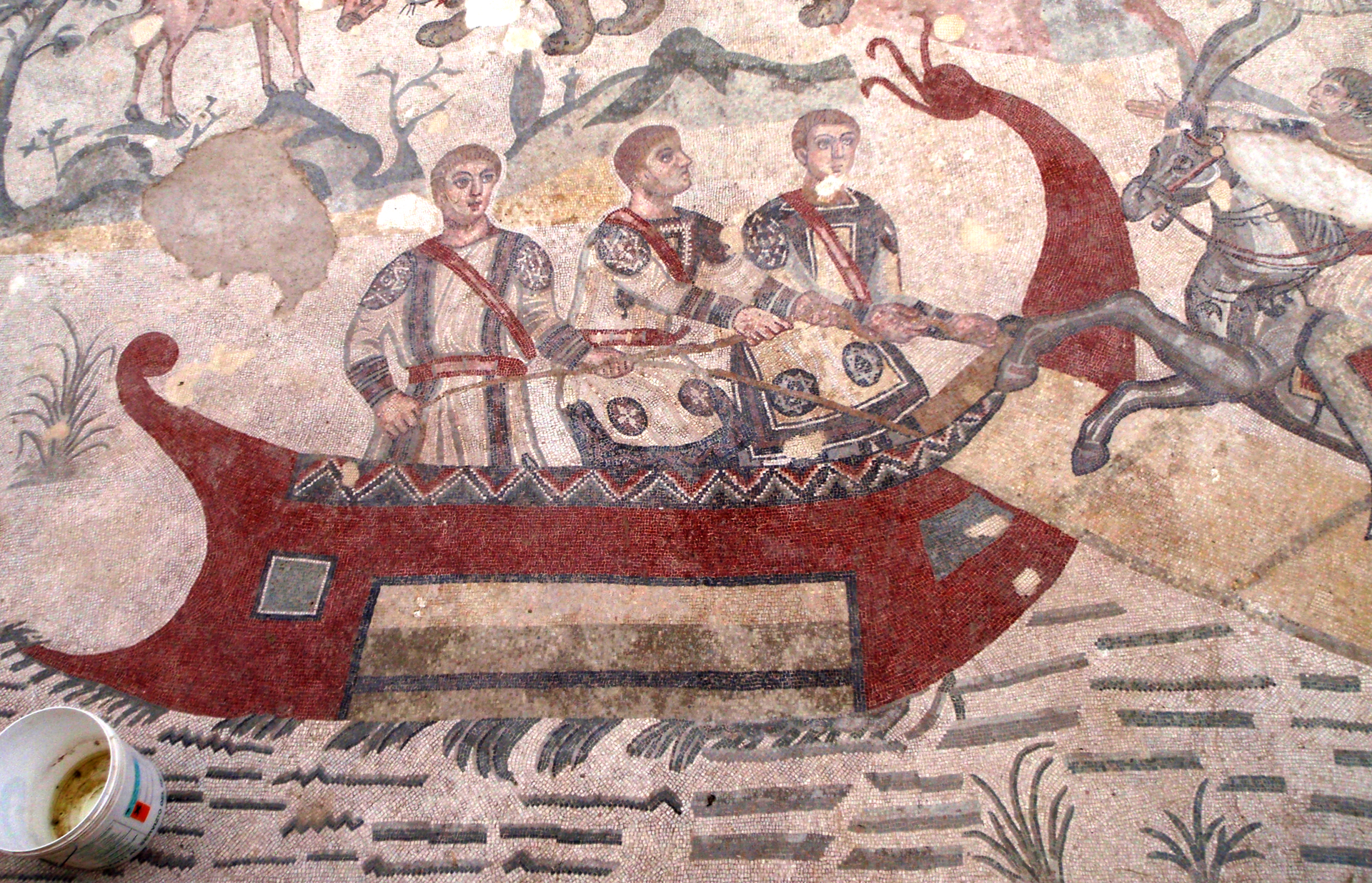 Villa del Casale, Sicily, red ship on mosaic.